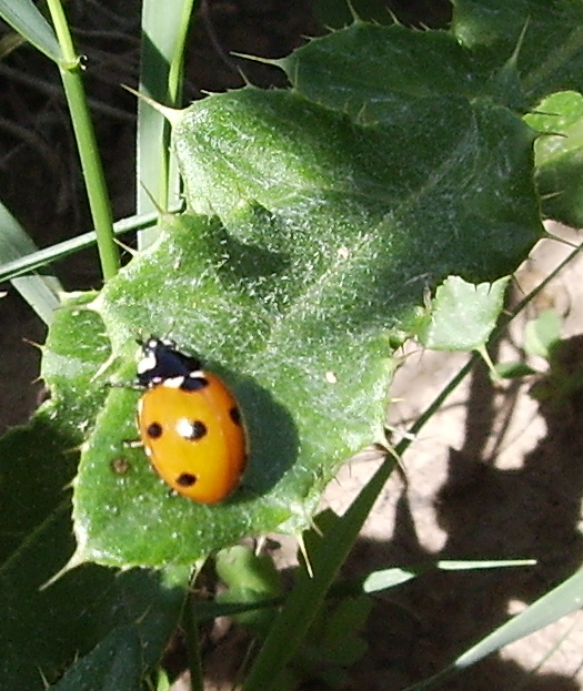 Lady bird (Coccinella septempunctata), Castelltallat, Catalonia